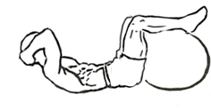 an exercise of abs